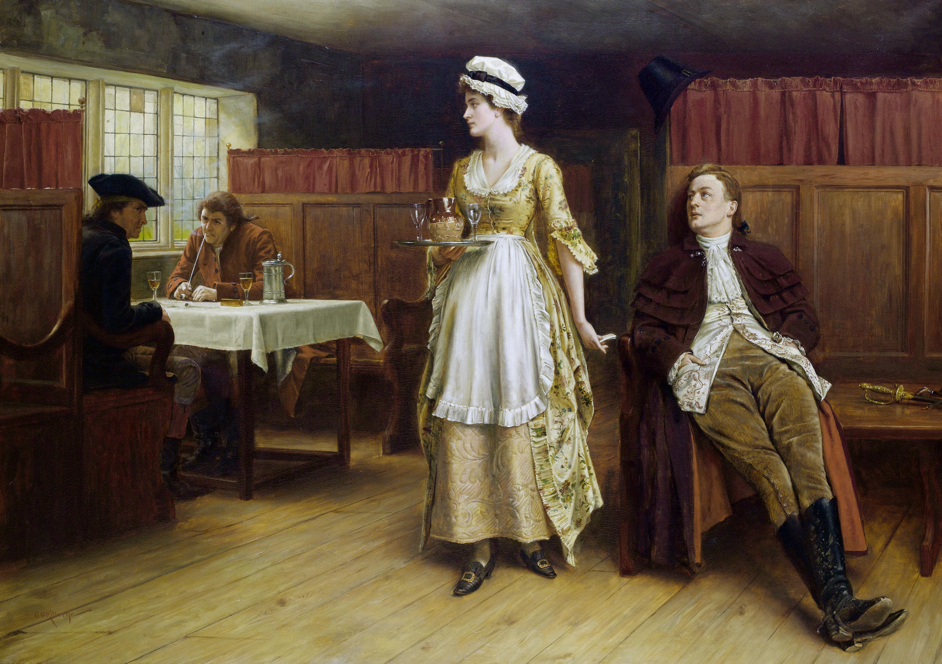 Forewarned is forearmed. Signed GGKilburne. Oil on canvas, 98.5 x 135 cm